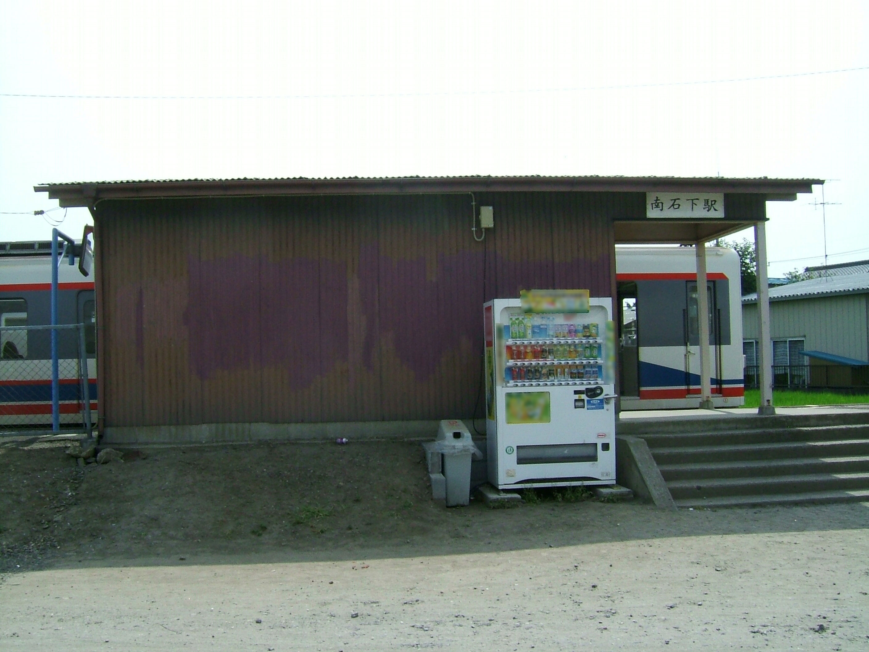 Minami-Ishige Station entrance (Kanto Railway Jōsō Line)